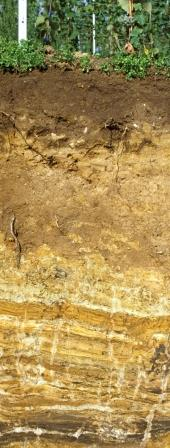 Vineyard Soil (tertiary Marl), St. Martin (Pfalz), Germany